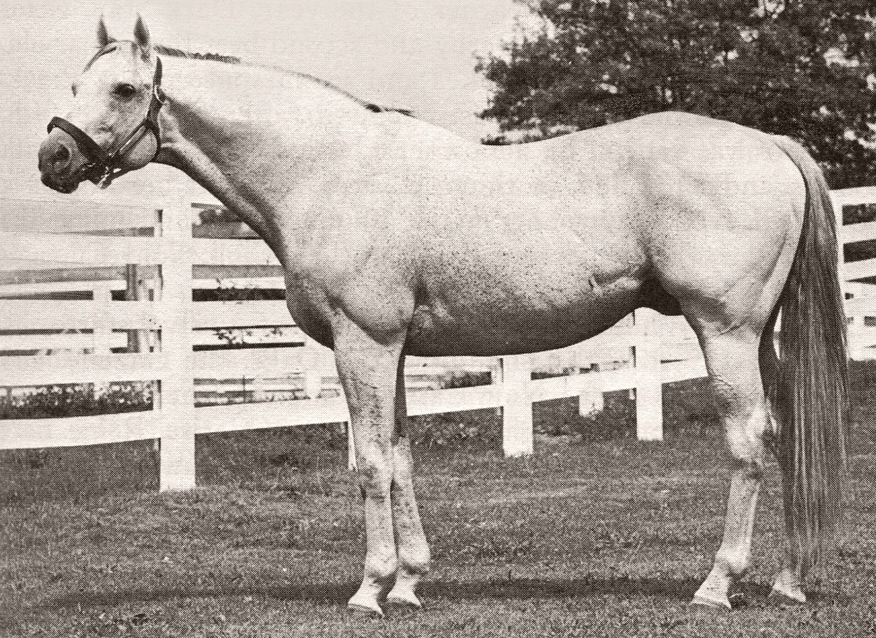 Native Dancer (1950) was an American Thoroughbred racehorse and sire.